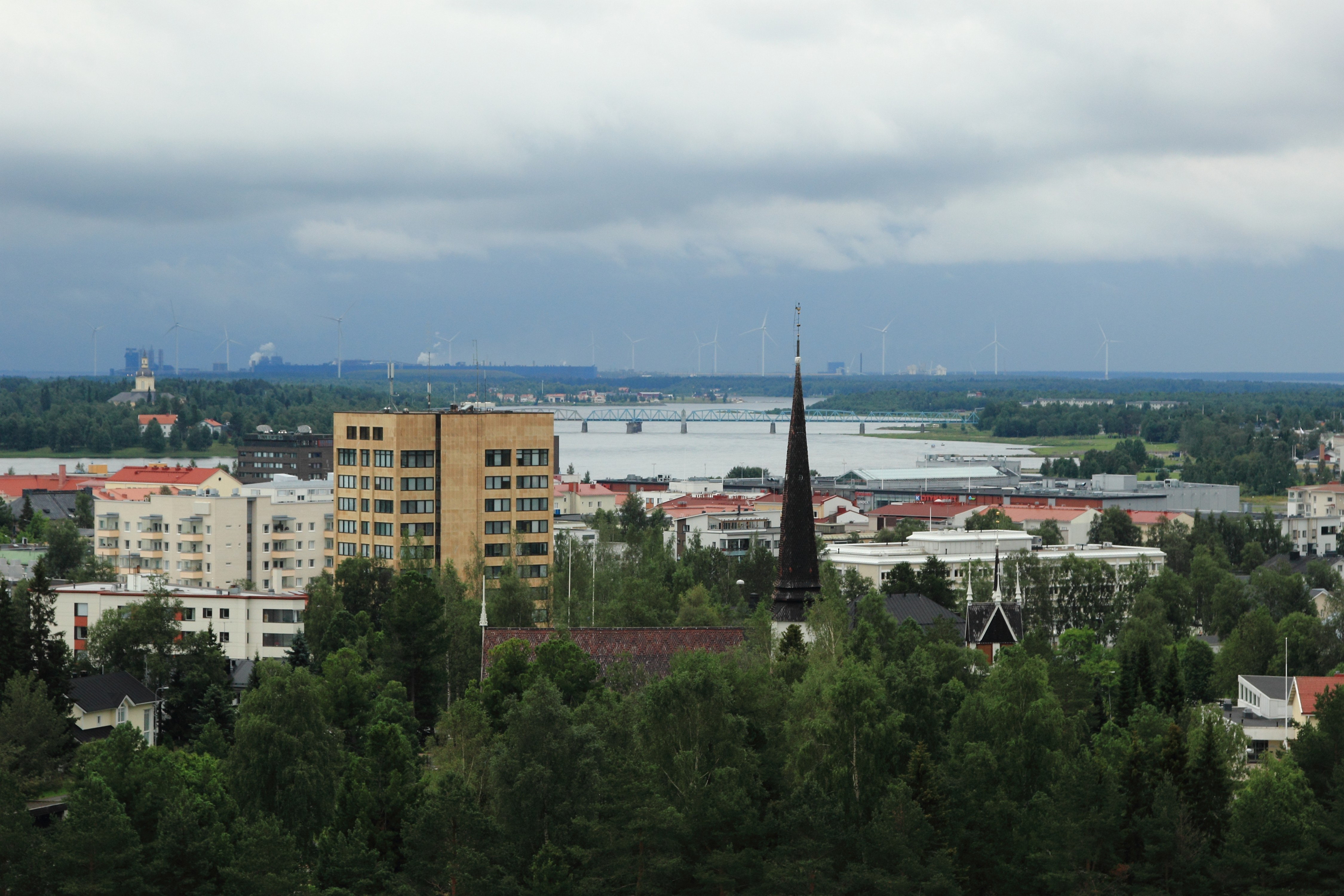 View of Tornio from the Suensaari water tower.